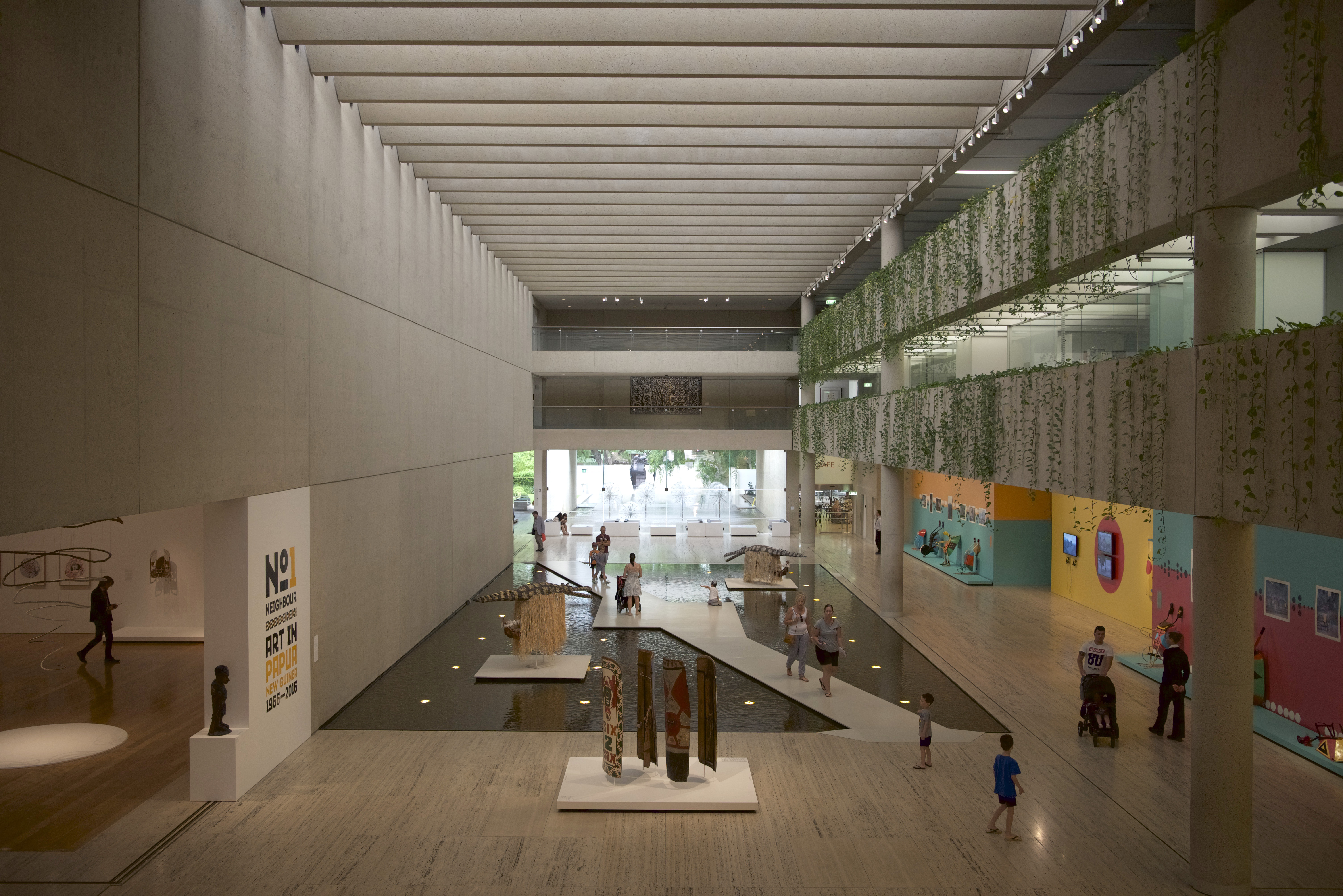 Architect: Robin Gibson Still one of my favourite pieces of Contemporary Architecture in Queensland. 'It is not only a place for the collection and exhibition of our art works, it is a place where the walls and barriers of the Gallery are broken down, where there is a constant source of interchange between the art world and the public.' – Robin Gibson, architect's statement